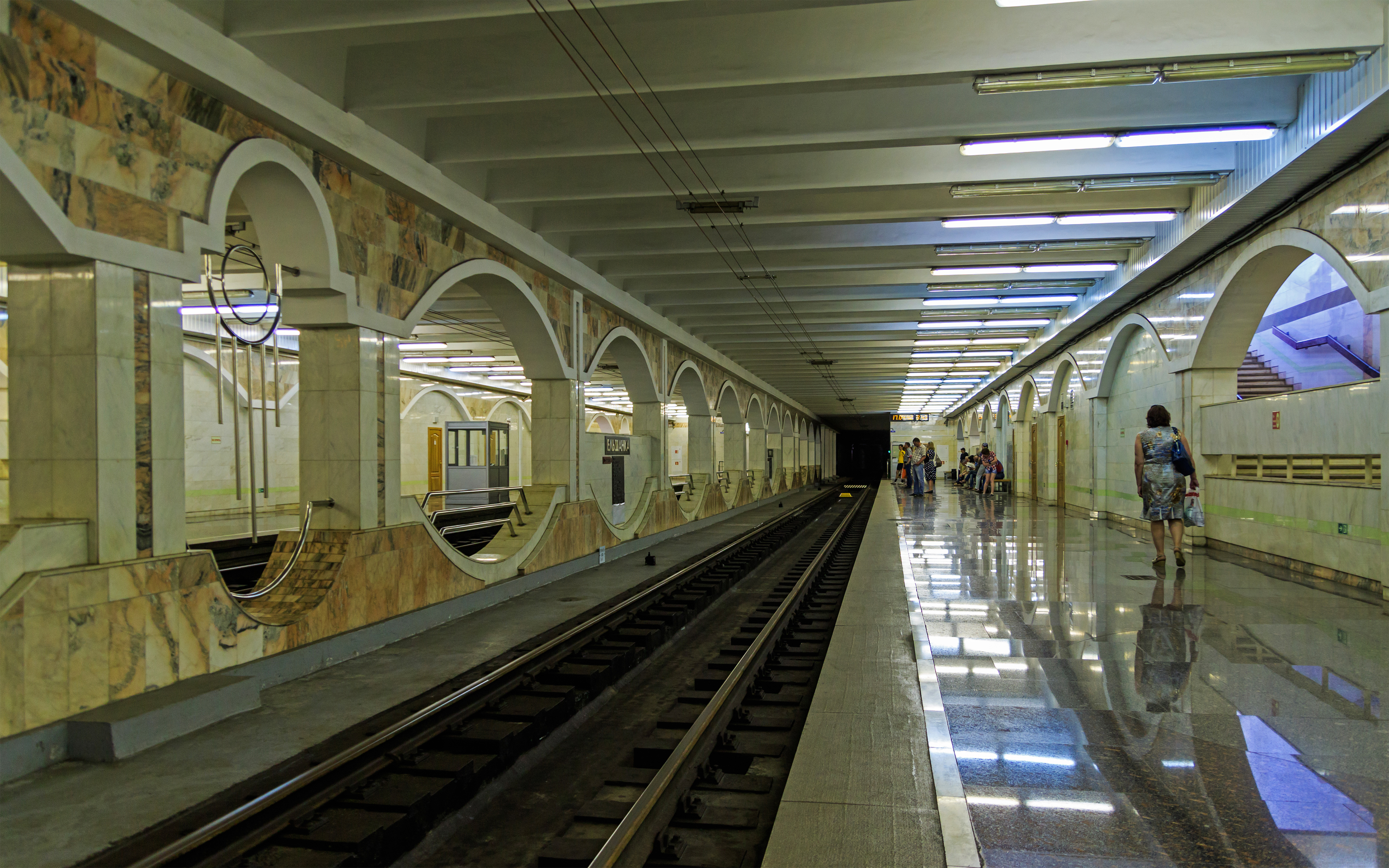 Yelshanka metrotram station in Volgograd, Russia